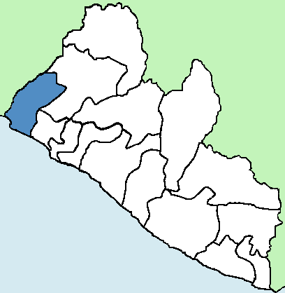 Map showing location of Grand Cape Mount County in Liberia